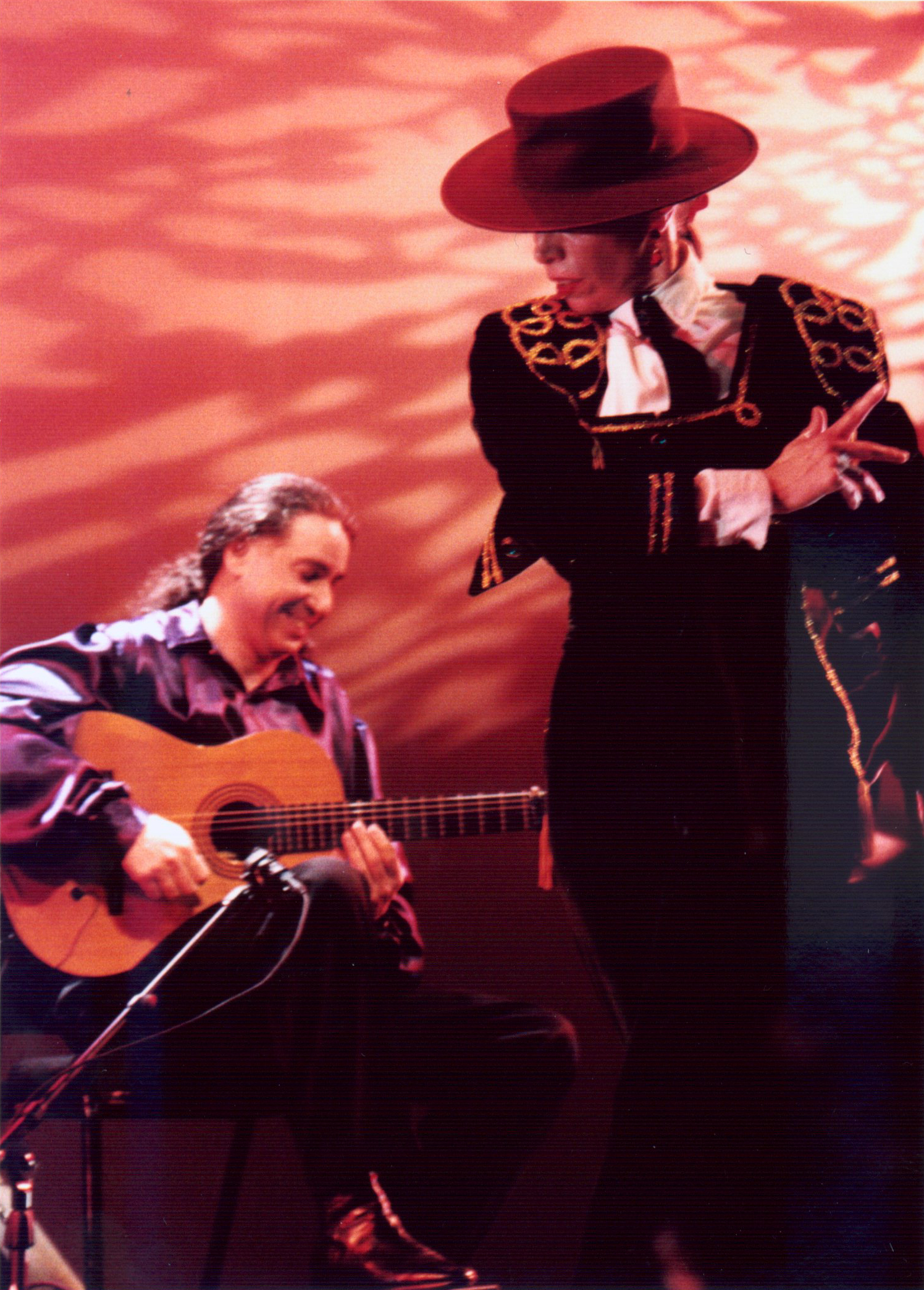 Michael Laucke and great flamenco dancer Daniela : The Flamenco Road Show On stage in the 10th anniversary concert in Canada's venerable concert hall, the celebrated Place des Arts. ...in the "Flamenco Road" Show